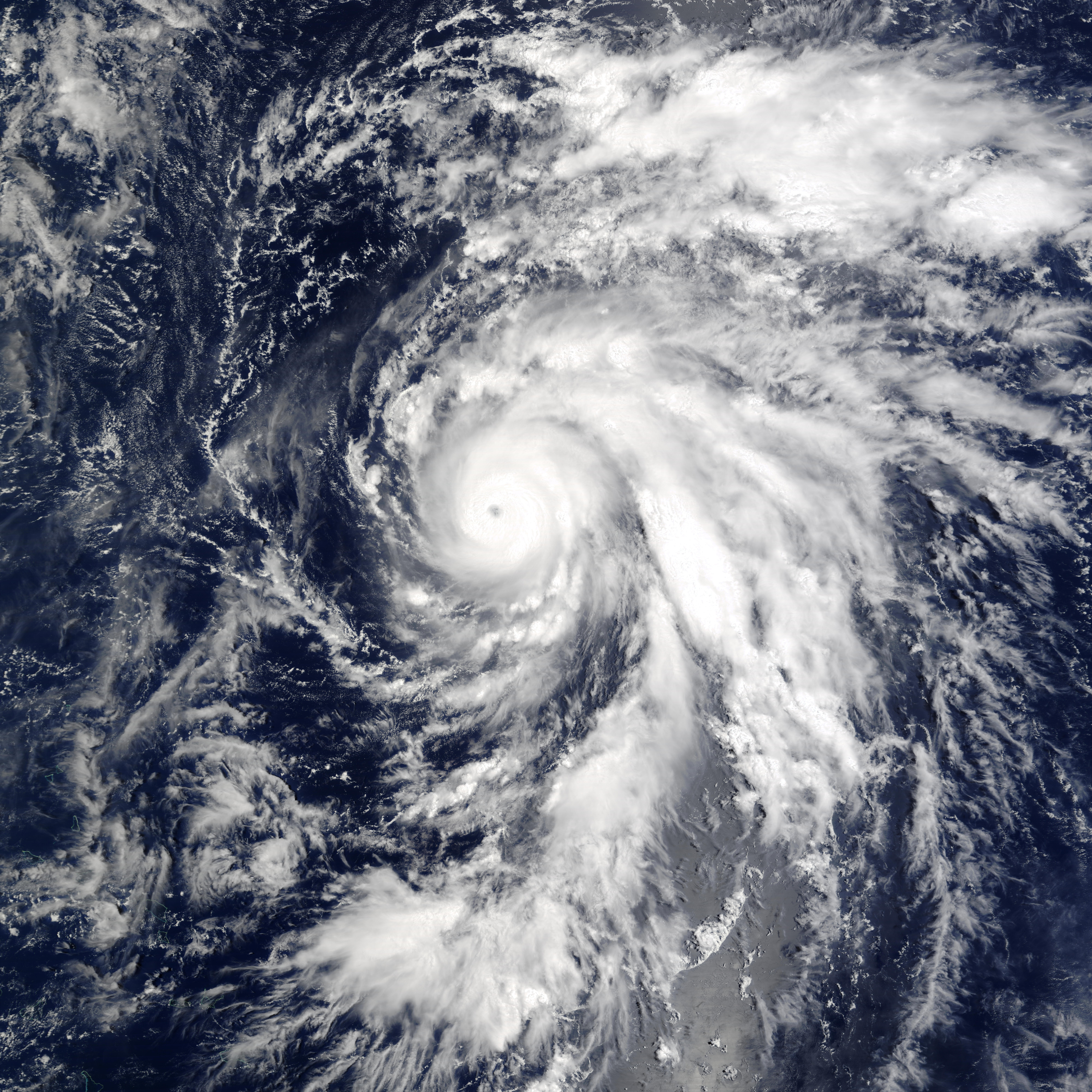 Hurricane Ele became Typhoon Ele as it crossed the International Date Line this past weekend. The typhoon/hurricane be seen in the central Pacific in this true-color image taken on August 30, 2002, by the Moderate Resolution Imaging Spectroradiometer (MODIS), flying aboard NASA's Terra spacecraft. As of September 3, the typhoon was several hundred miles east of the International Date Line and making its way north through the Pacific, packing sustained winds of up to 121 miles (195 kilometers) per hour.